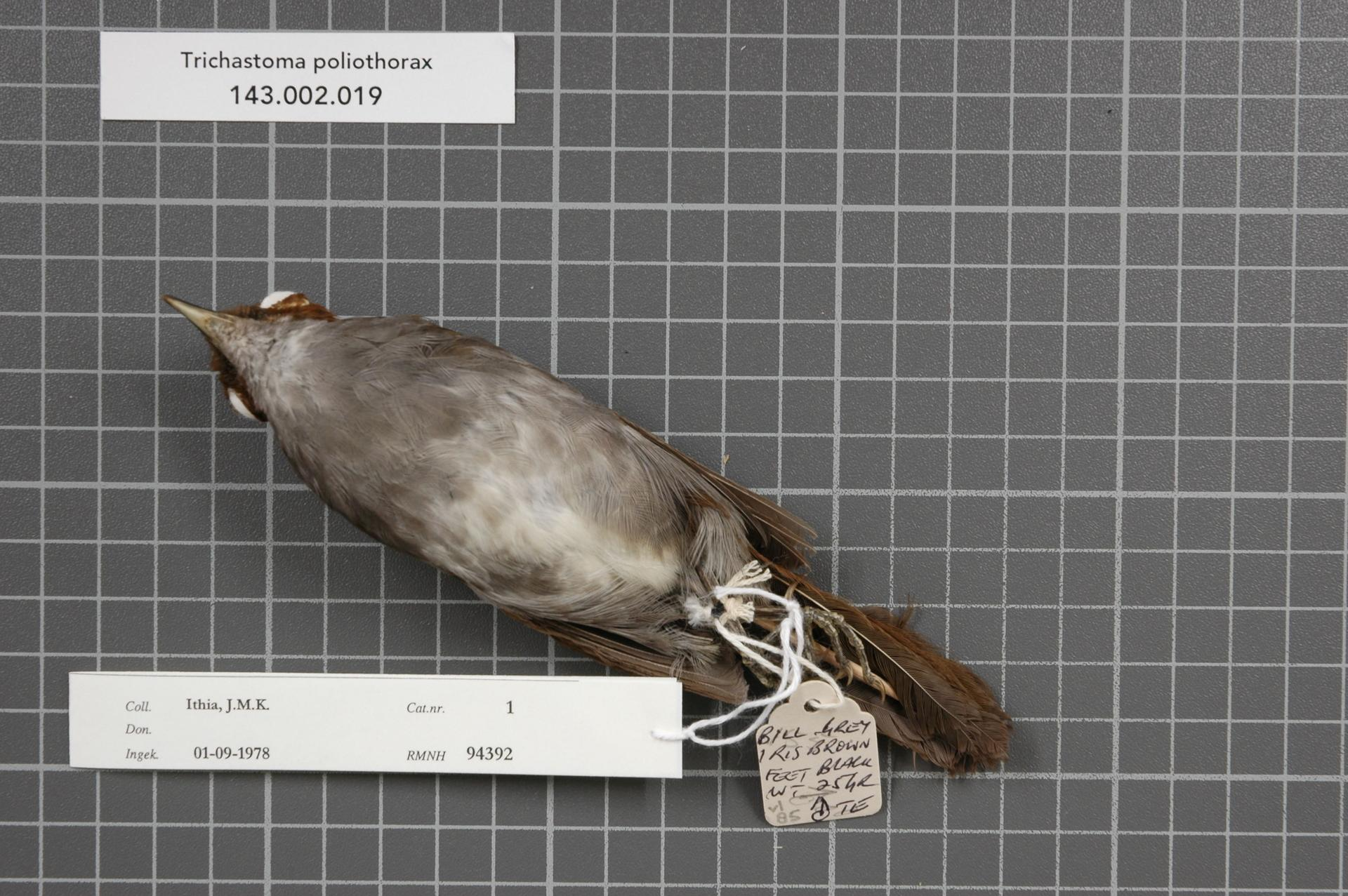 Trichastoma poliothorax (Reichenow, 1900)